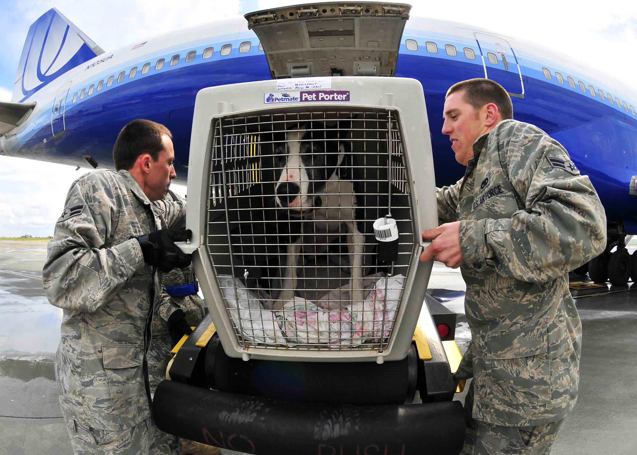 US military family dog arrives at Travis AFB on an evacuation flight from Japan